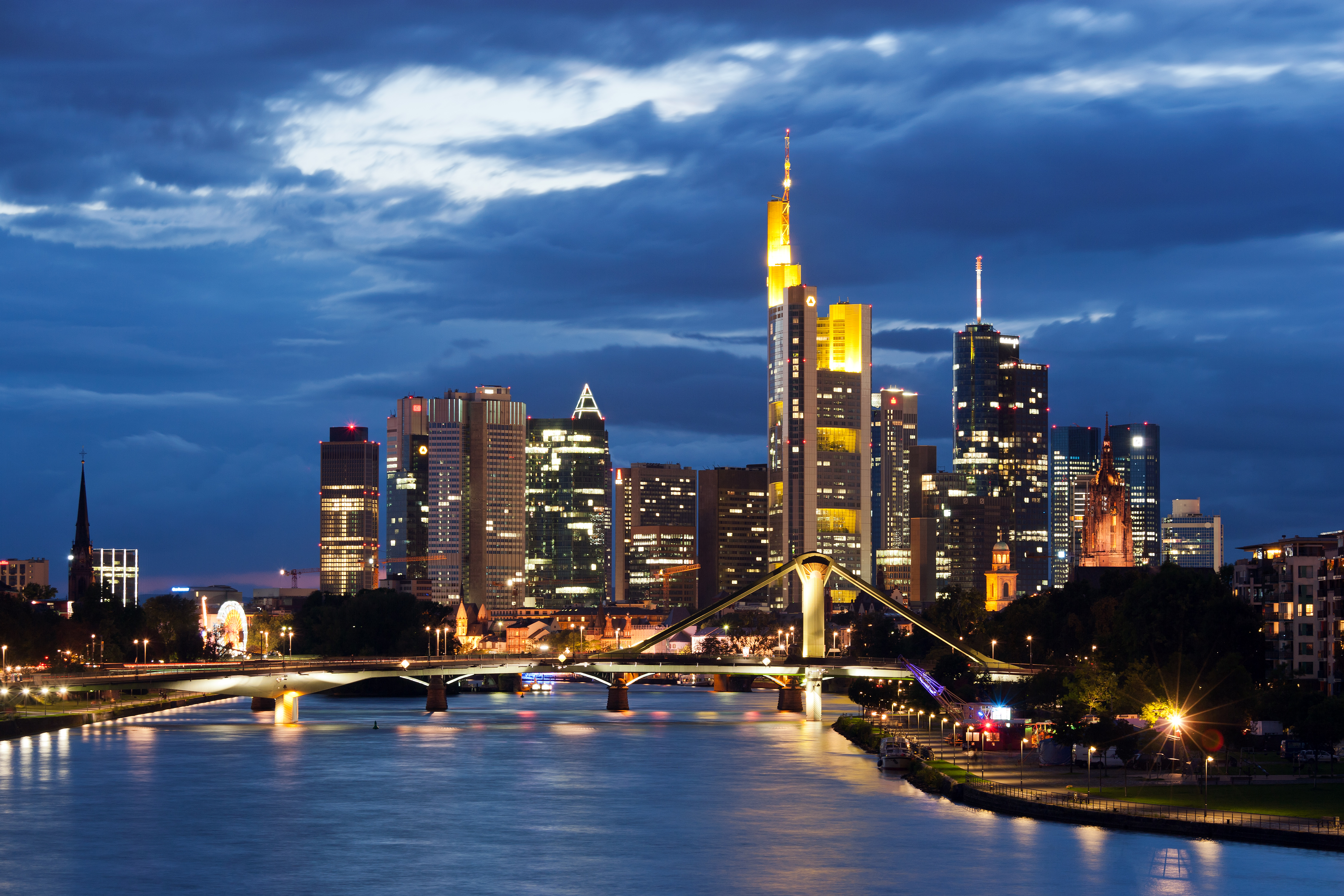 Frankfurt on the Main: View of the city as seen from the Deutschherrnbrücke (Teutonic Knights Bridge) in the early evening